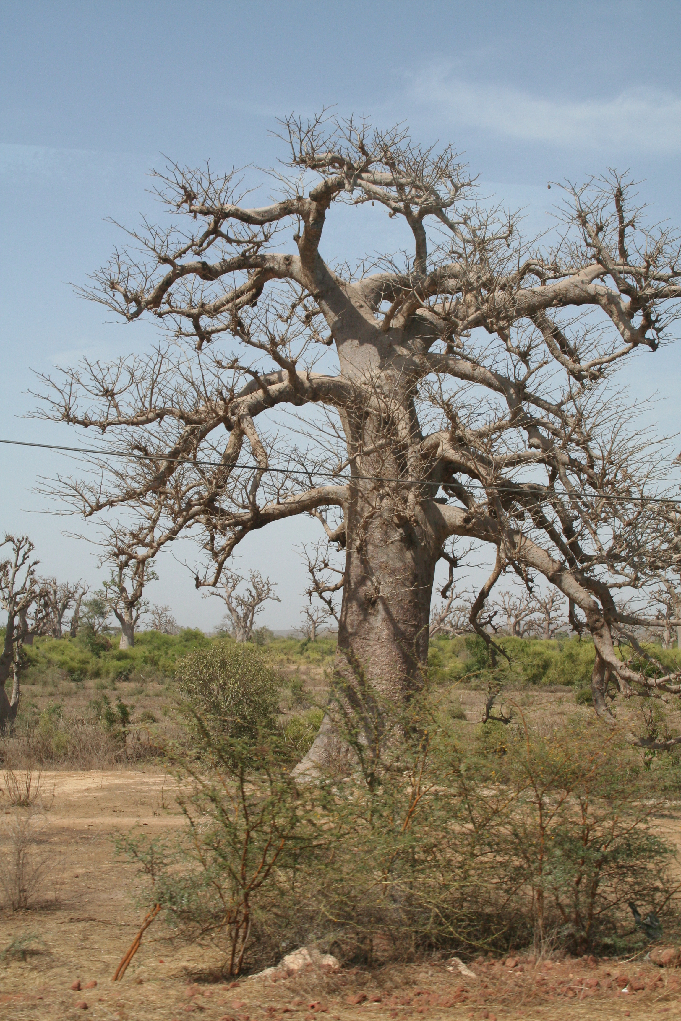 A Baobab tree, Adansonia digitata, and other plants of the Sahel sub-Saharan savanna, in the Delta-du-Saloum National Park near Toubacouta, Senegal.